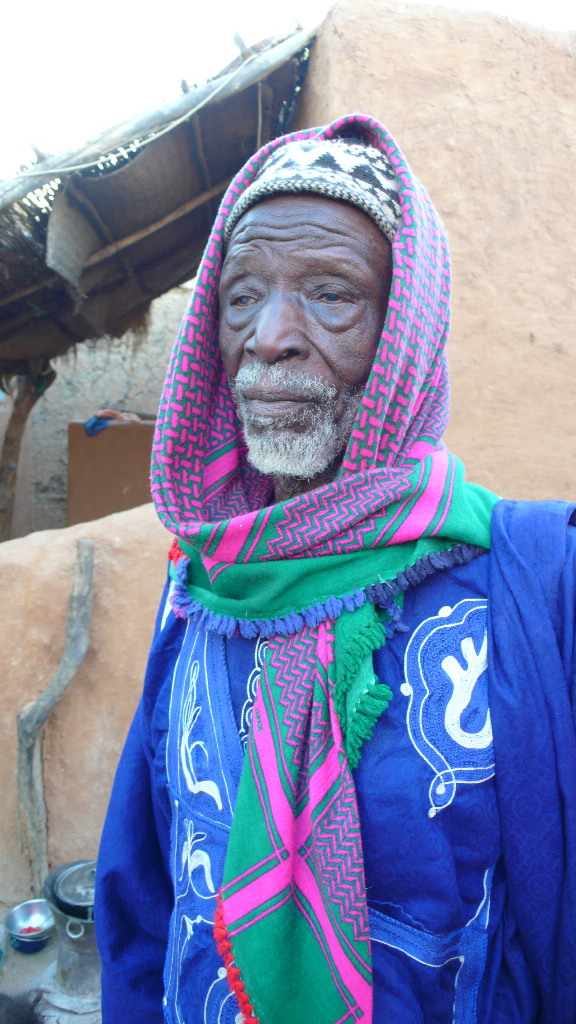 Soninké elderly man, market of Selibaby, Guidimakha, Mauritania